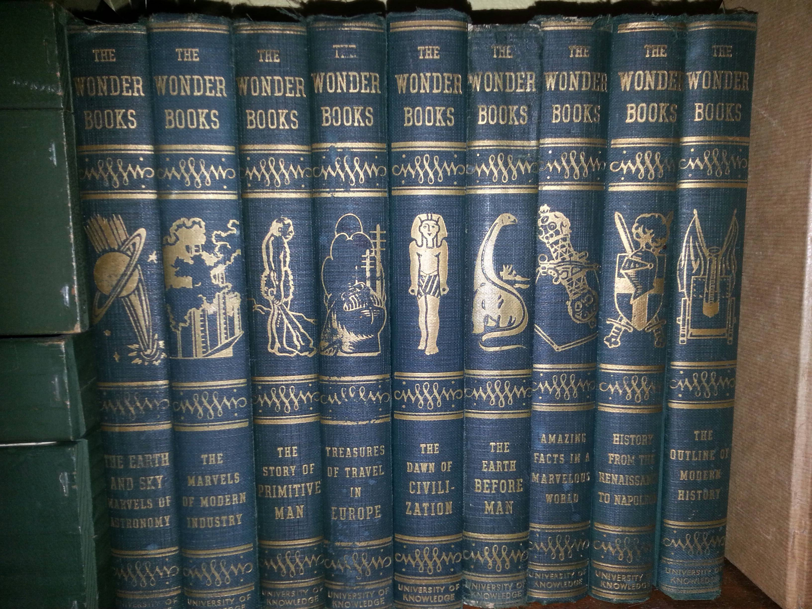 Nine of the series of "The Wonder Books" published by The University of Knowledge Inc, Chicago